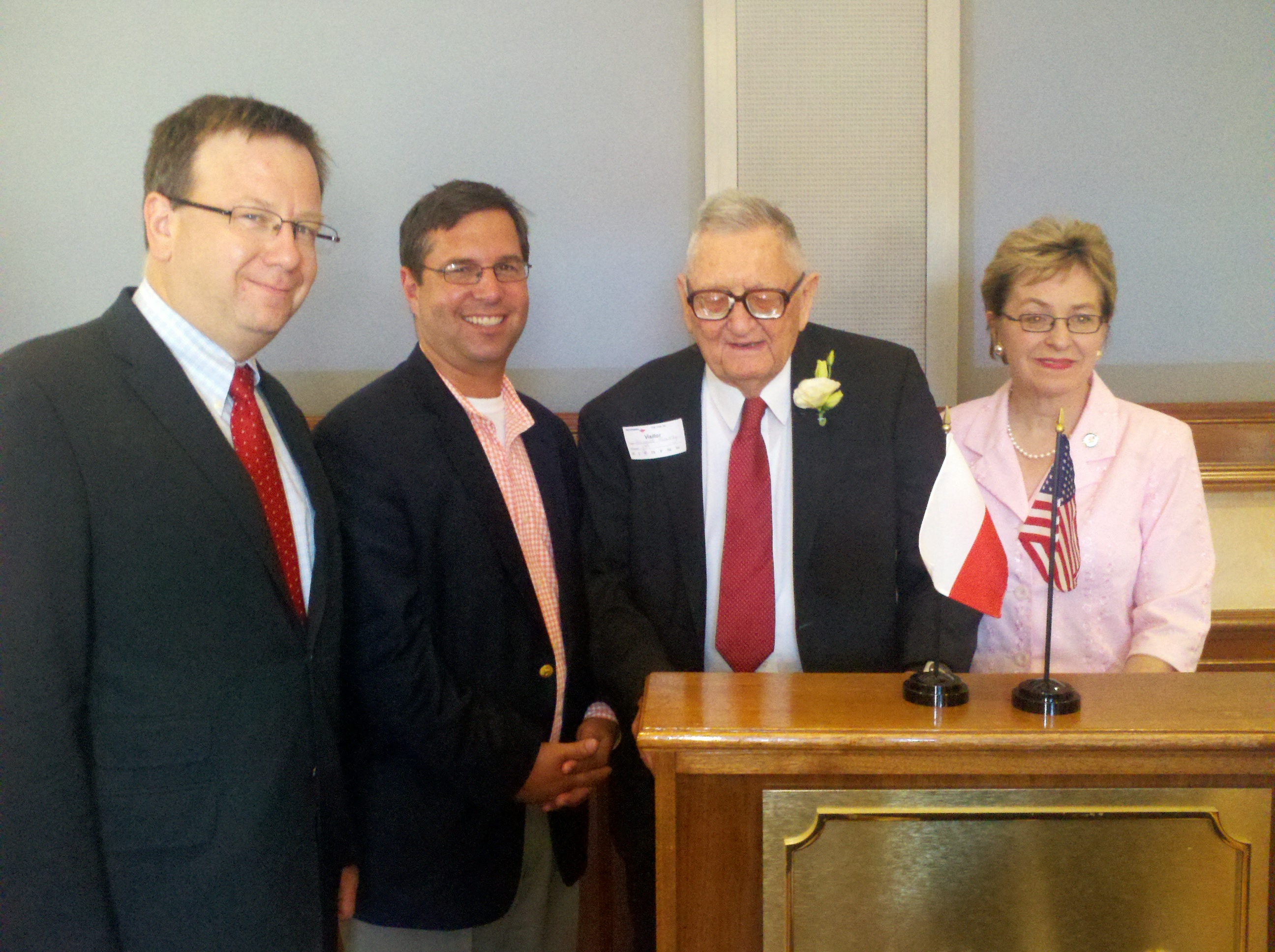 APAC reception at Bank of America presidential penthouse near the White House, 6/27/12. From right to left: Congresswoman Marcy Kaptur, Honorary Democratic Co-Chair of APAC, President of APAC, General Edward Rowny, mayor DeGeeter of Parma, Ohio, and Poland's DCM Maciej Pisarski.